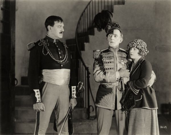 The evil Maldonado (played by Montagu Love) glares at Dr. Arbutus Bud (Raymond Hitchcock) and his daughter Ann Bud (Diana Allen) in a scene still for the 1922 silent comedy The Beauty Shop.